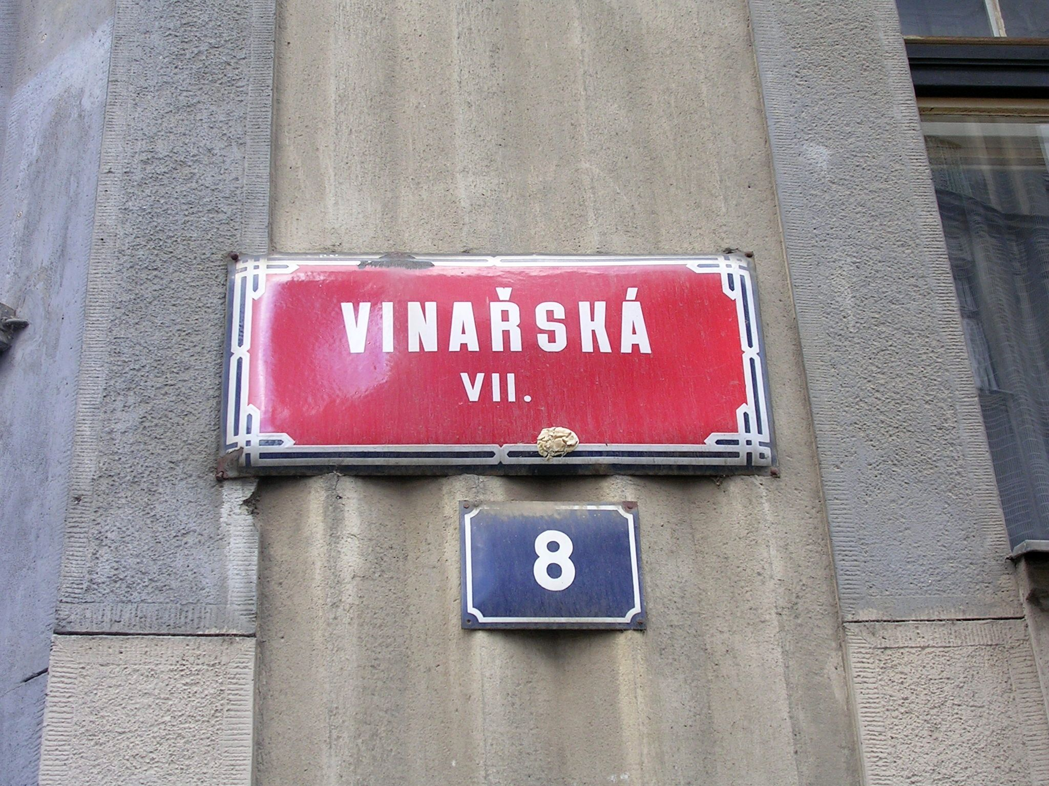 Holešovice, Prague, the Czech Republic. A street sign and a house number Vinařská No 8.